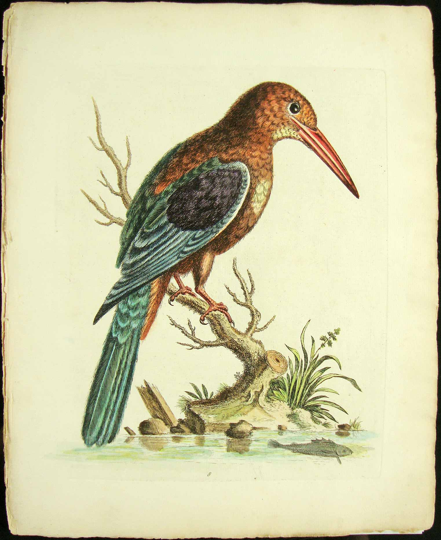 Painting "Great Kingfisher" by Peter Paillou (the elder), (c.1720 – c.1790). Colour plate in A natural history of birds by George Edwards, 1740-50. Perhaps Halcyon smyrnensis, the White-Breasted Kingfisher.